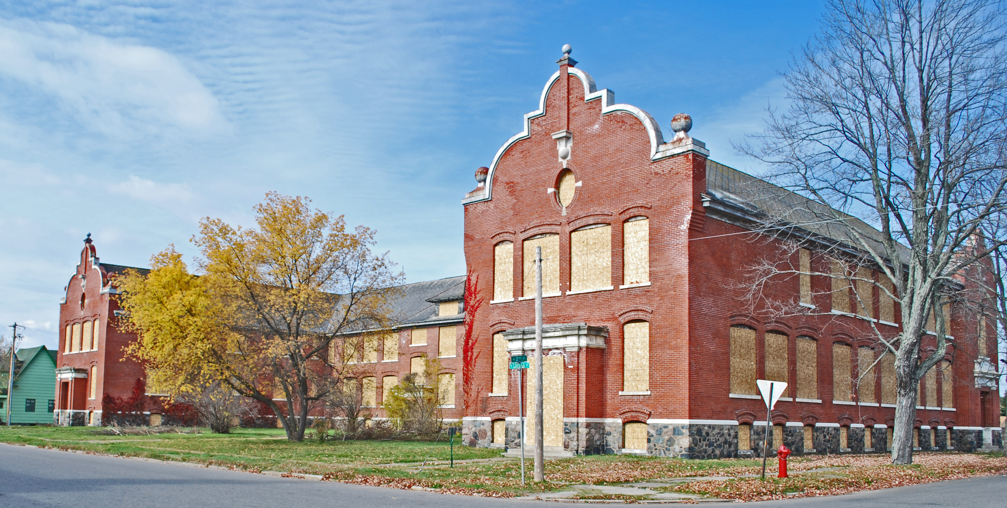 Central School (closed) — Iron River, Upper Michigan. On the National Register of Historic Places.